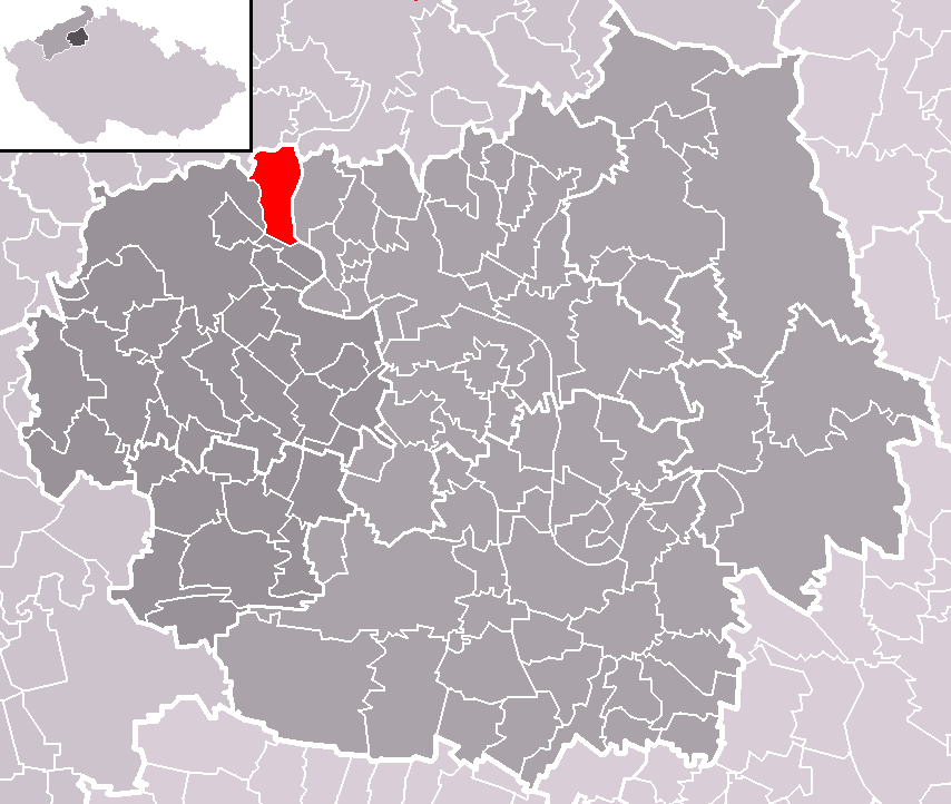 Location of Prackovice nad Labem municipality within Litoměřice District and administrative area of Lovosice as a Municipality with Extended Competence.